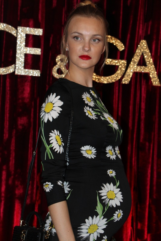 Carol Trentini